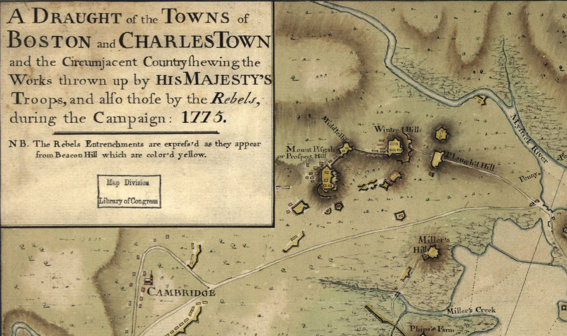 A portion of a map from 1775 highlighting the Winter Hill area of what is now Somerville MA. The complete map can be found in the Library of Congress: “A draught of the towns of Boston and Charles Town and the circumjacent country shewing the works thrown up by His Majesty’s troops, and also those by the rebels, during the campaign: 1775.”